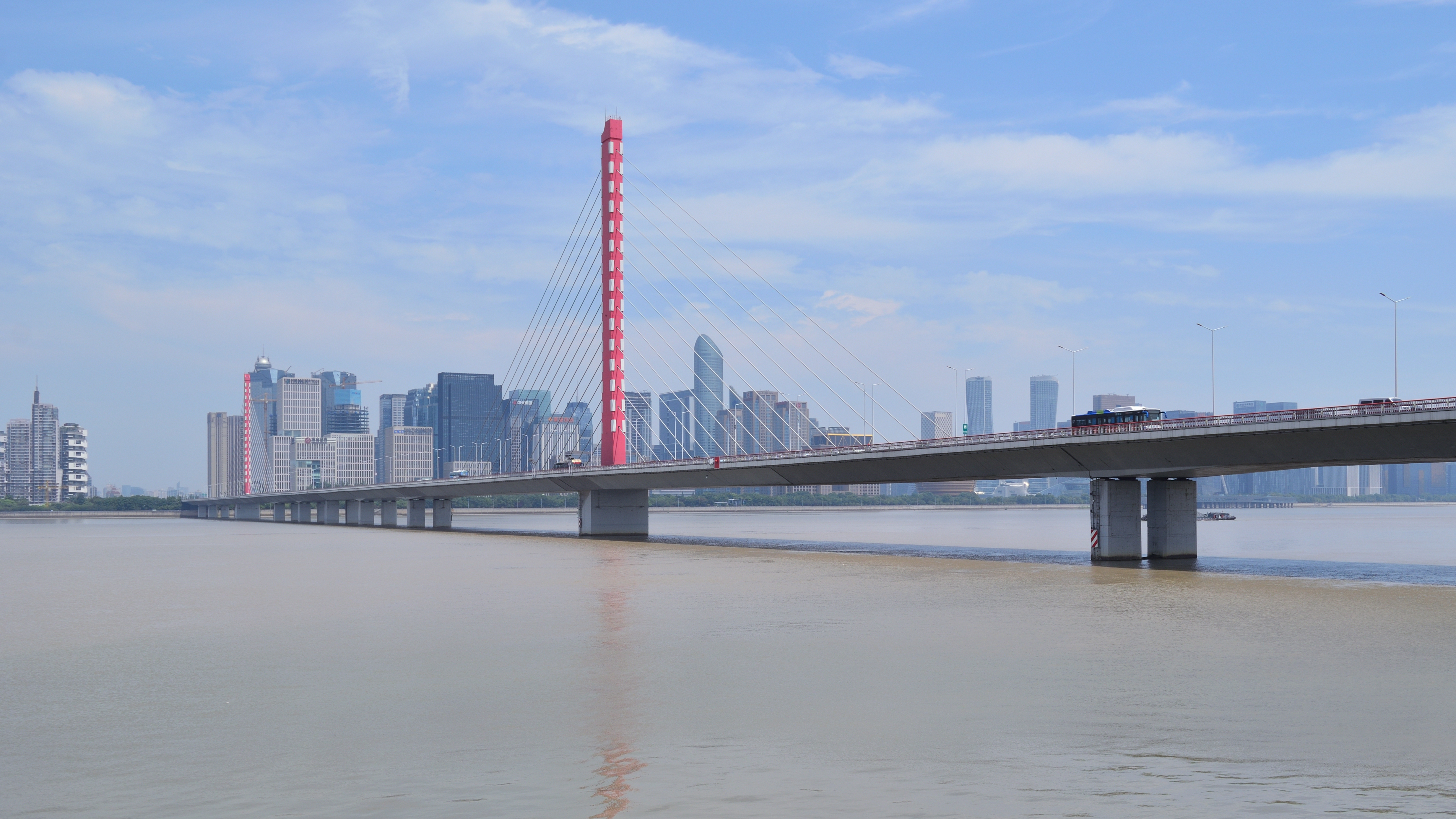 Third Qiantang River Bridge